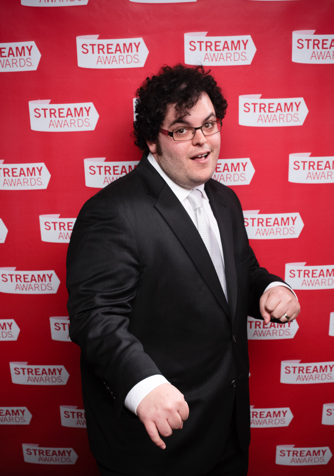 Thanks for viewing the official Streamy Awards photos! The exclusive photos of the winners and presenters are here. You don't want to miss those! We could not have done this without our awesome team of associate photographers: Bonny Pierzina Gabriel Ryan Laura Kearse Joe Philipson Kevin Calumpit Luis Miguel Munoz-Najar Actually, without our production team we could not have done this either: Josh Allard Megan Chrisofferson Mark Bealo Scott Kearse Thanks so much everyone for your hard work, and thanks so much Streamy Awards for using us again for the official photography! Please feel free to use these photos under a Creative Commons Attribution license (which means you may use the photos as long as you attribute the photos to and provide a link back to ) You can learn more about the Sreamy Awards by visiting Also, you can learn more about these photos by visiting our website with our favorite Streamy Awards photos.